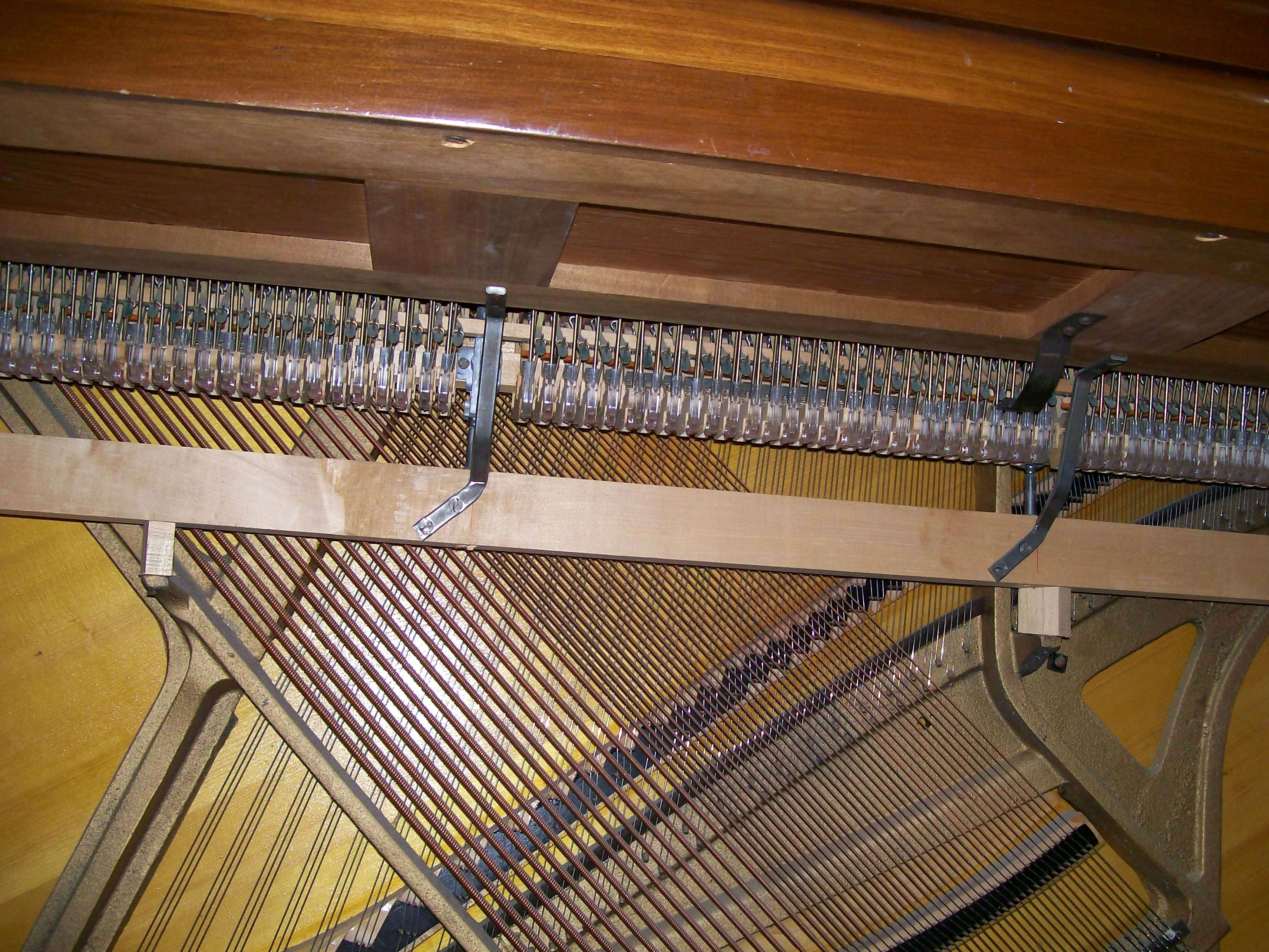 Gulbransen spinet piano with a new set of plastic elbows